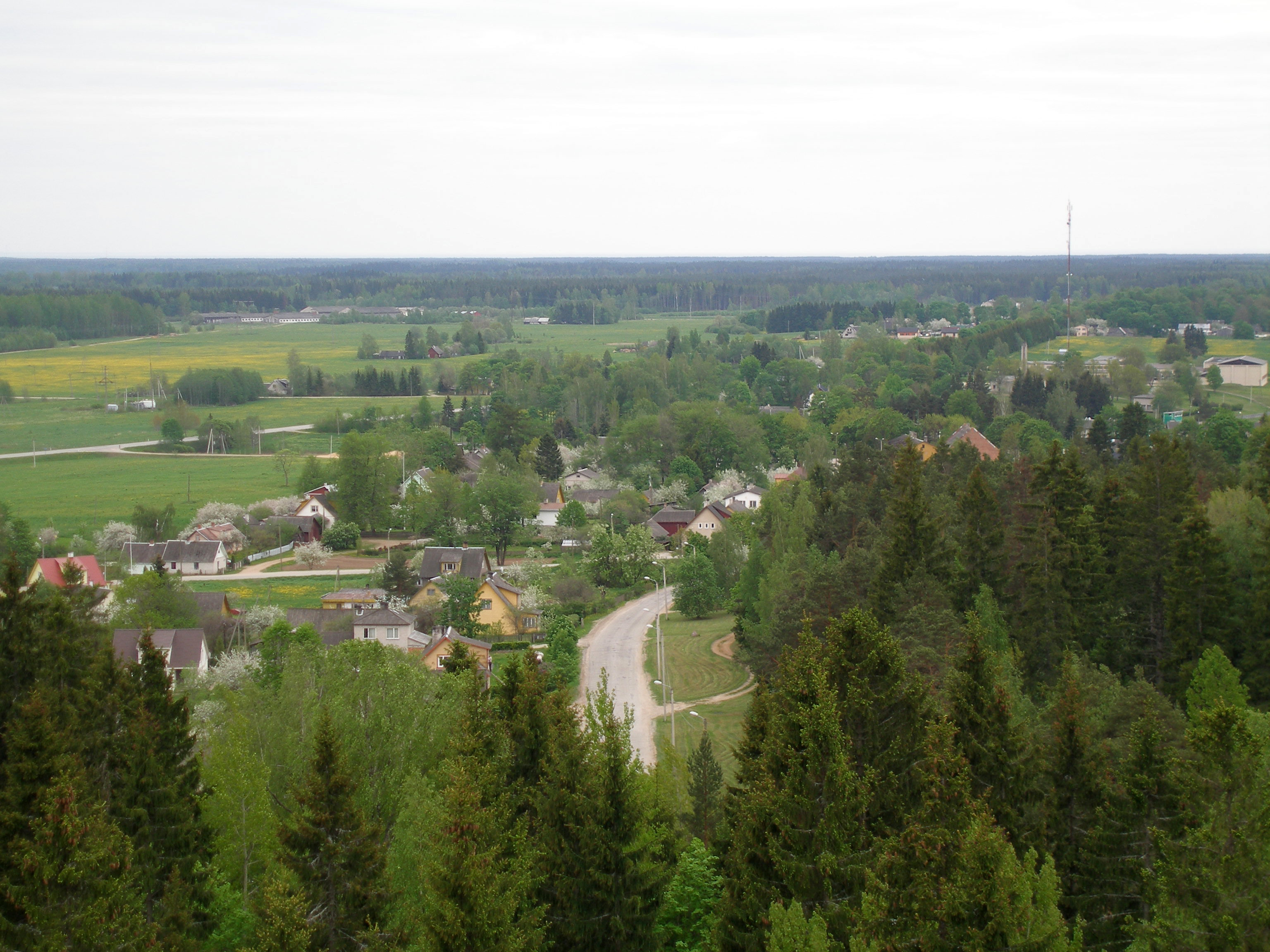 View of Iisaku, Estonia, from the lookout at Tärivere Hill.